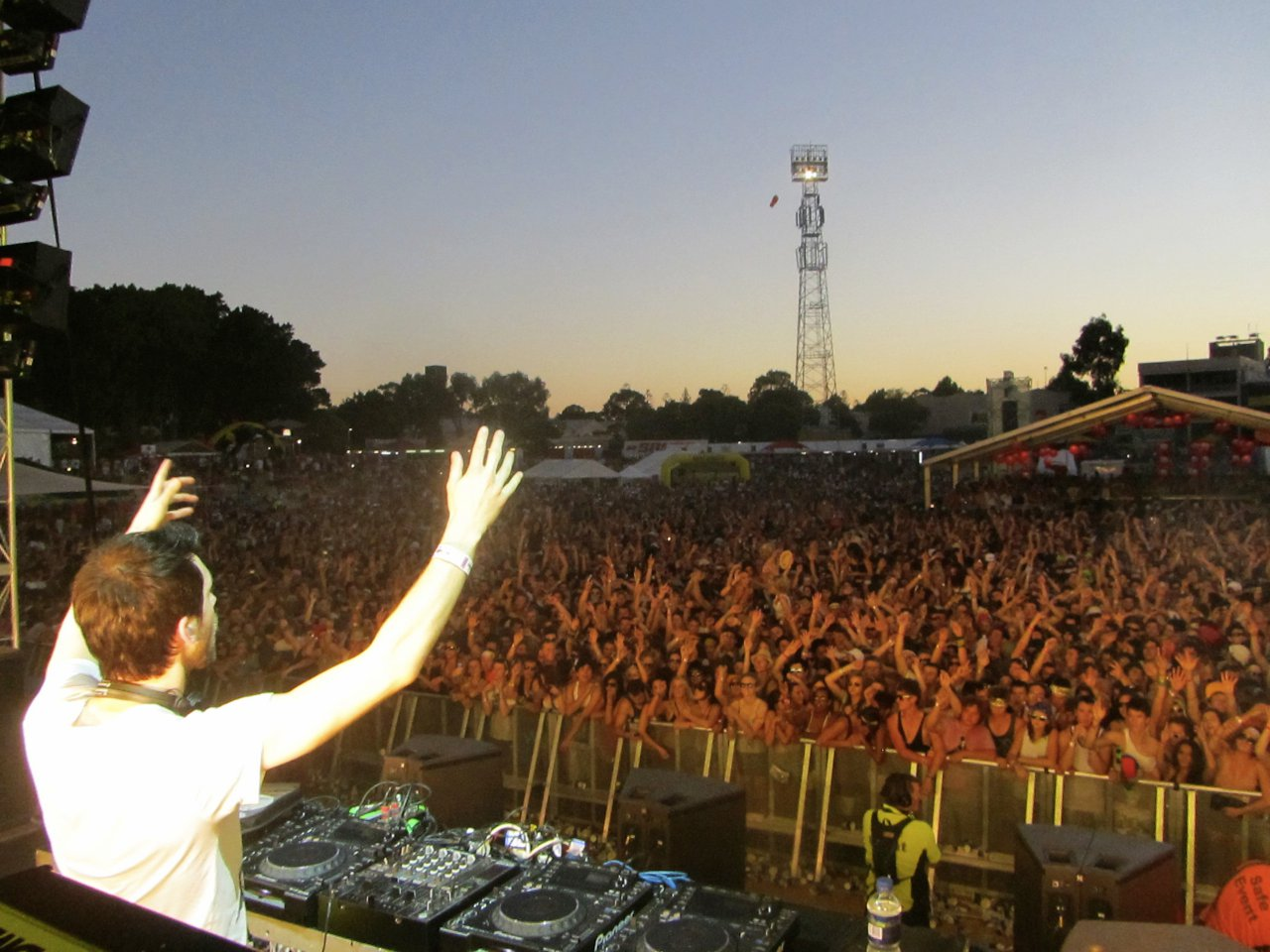 Calvin Harris doing 'the Oakenfold' at Perth Stereosonic, 2010.